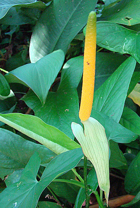 From Bastimentos Island, northwestern Panama. Unusually fragrant. In context at